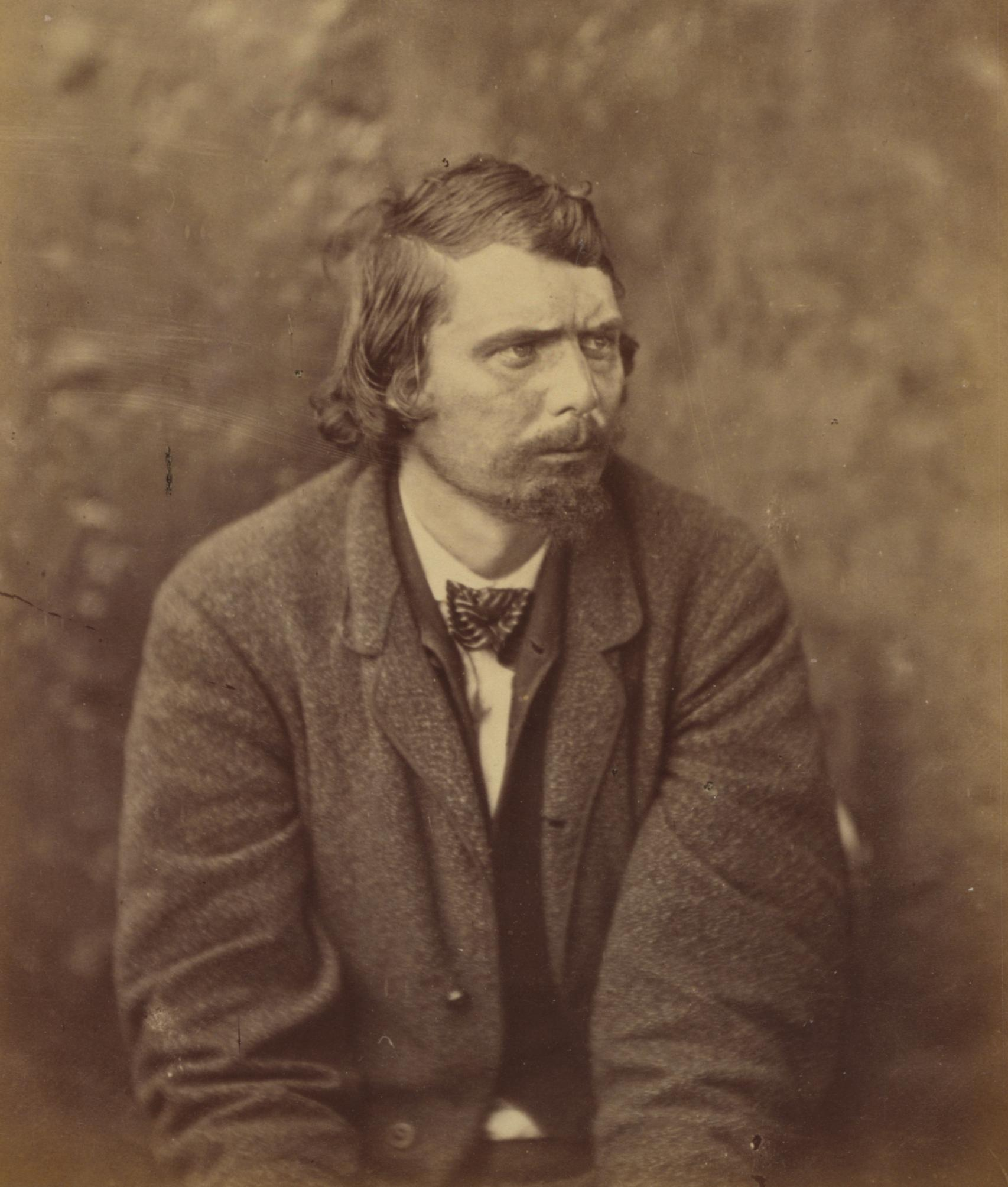 George Atzerodt, one of the conspirators to assassinate Lincoln.